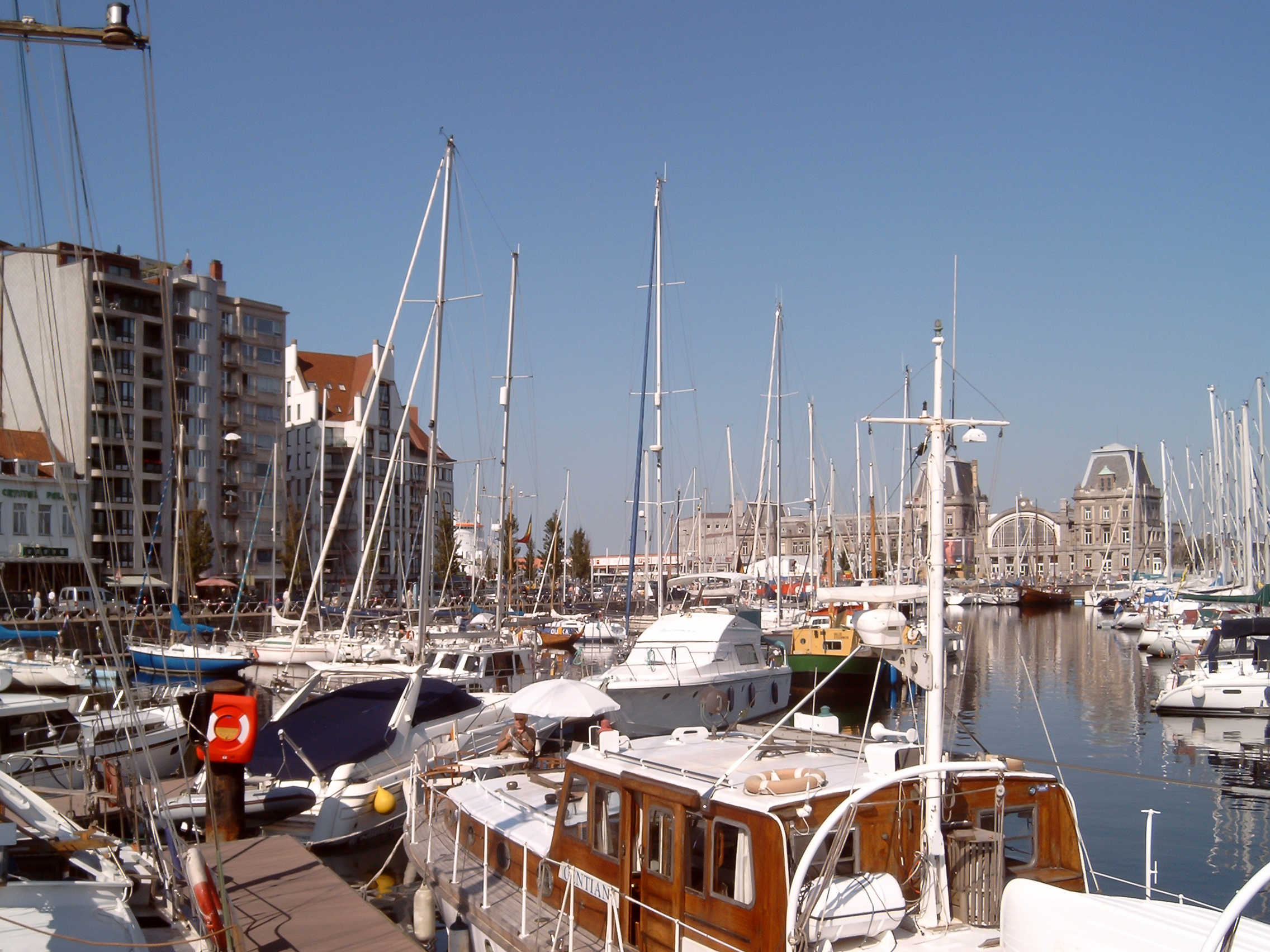 Ostend, near train station